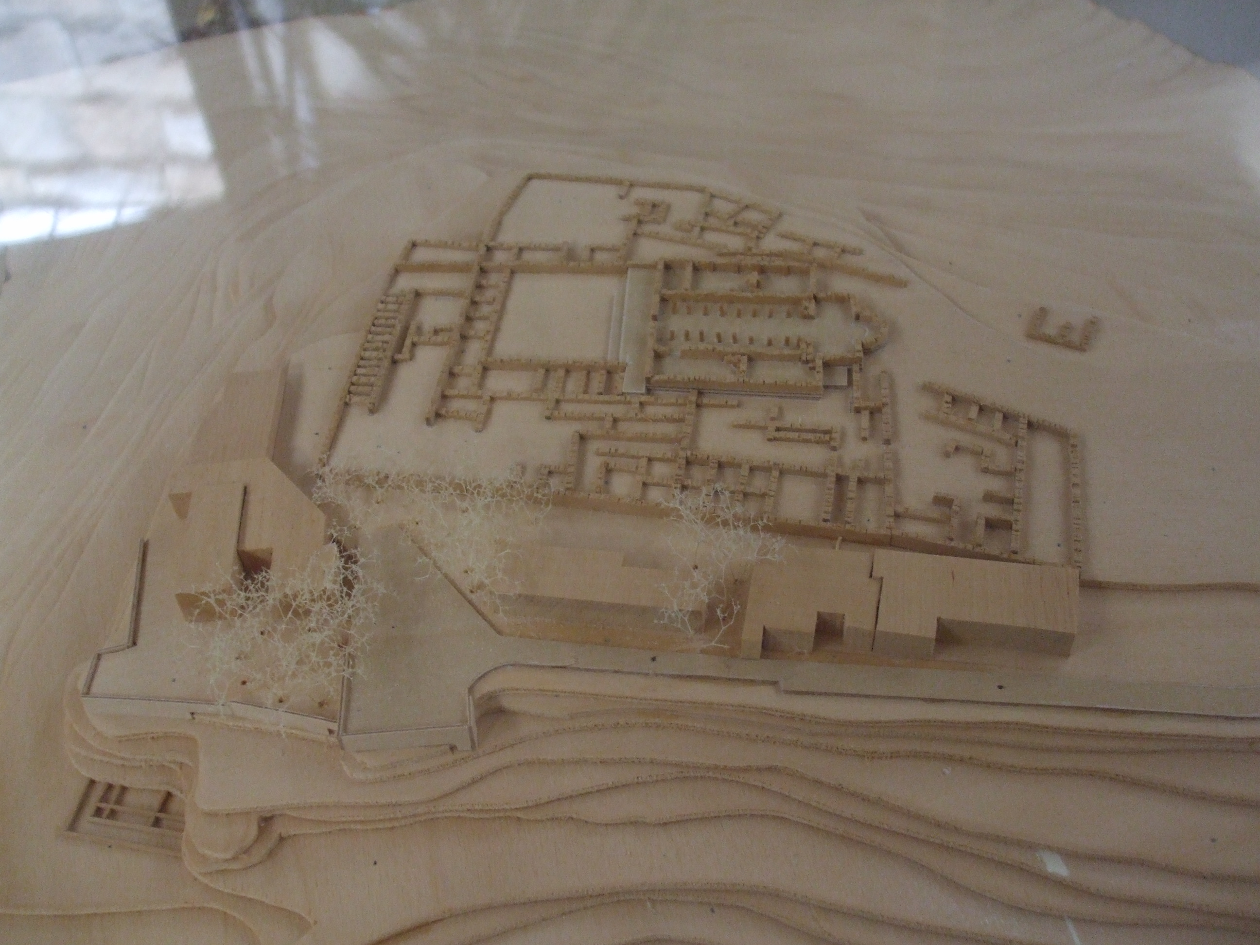 A model of Makawer Castle in Madaba, Jordan.